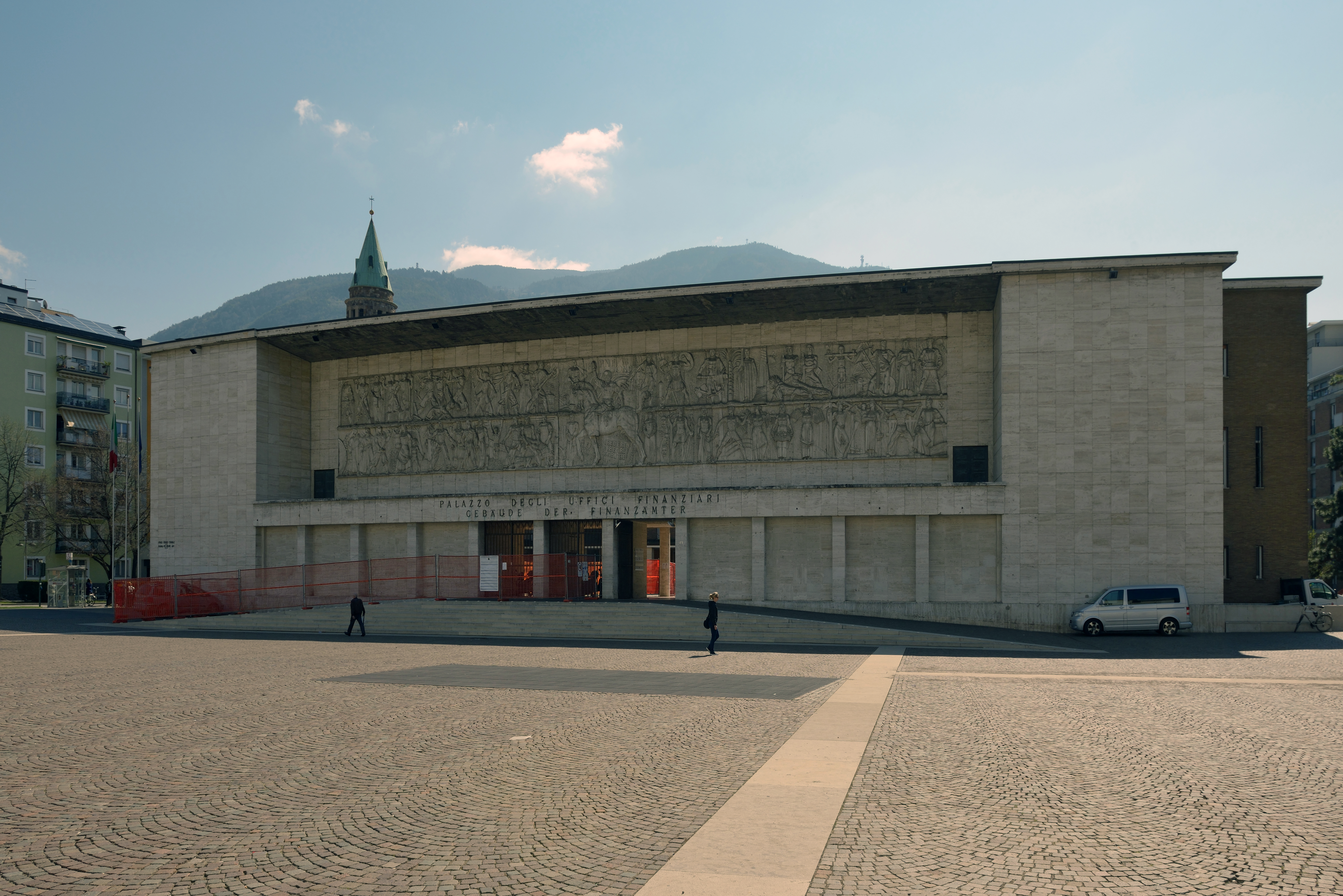 Palazzo degli Uffici Finanziari Palace on Piazza del Tribunale, Bozen, South Tyrol.)